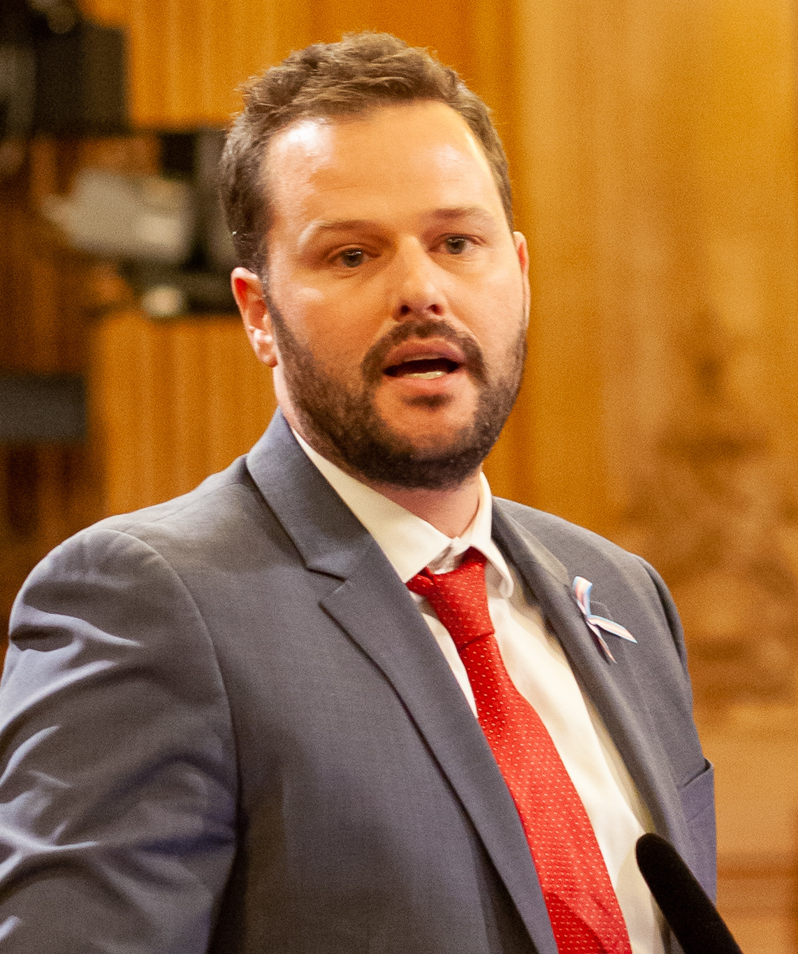 San Francisco Supervisor Matt Haney speaks at a Board of Supervisors meeting during Transgender Awareness Week.